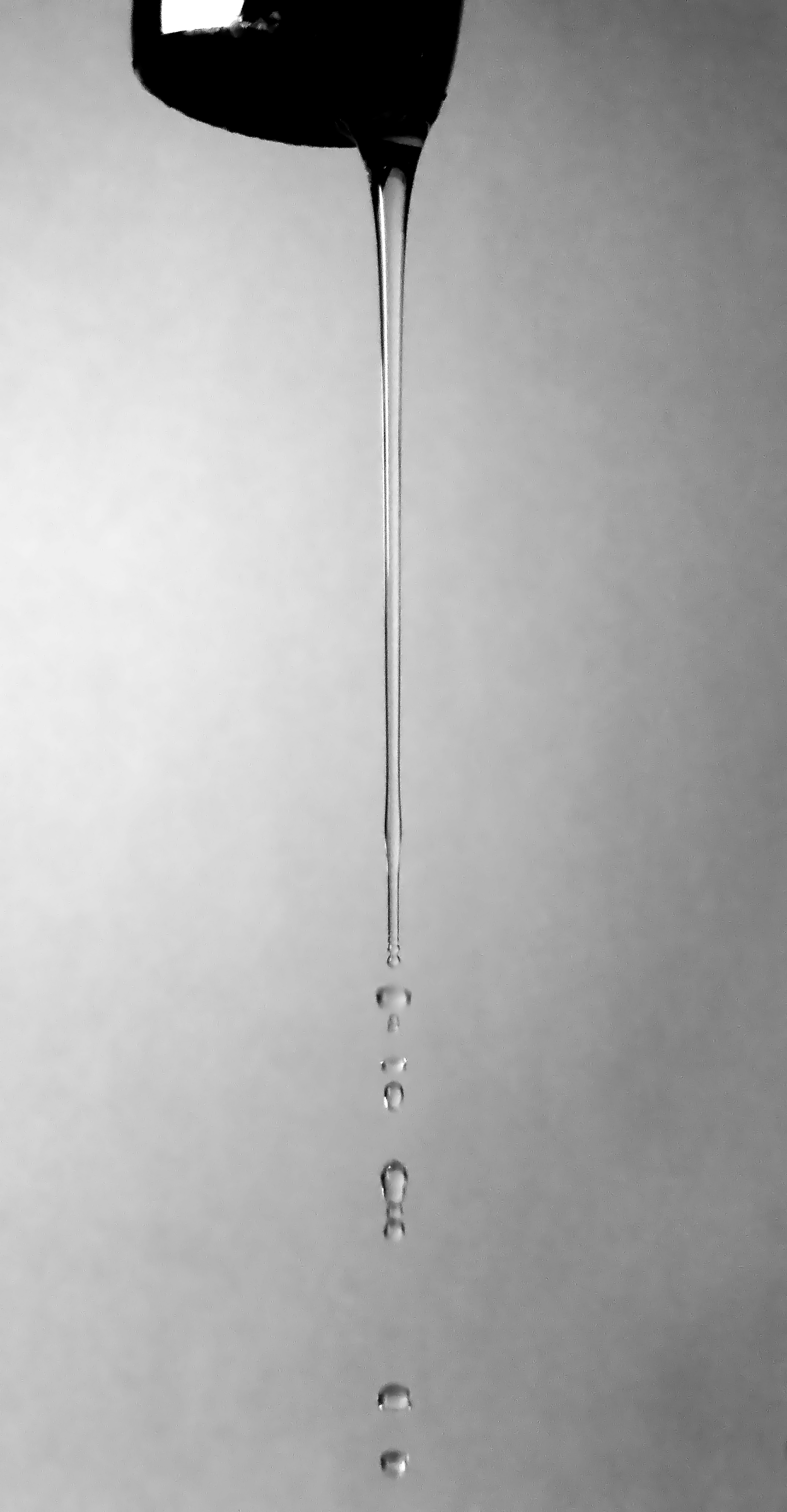 droplet jet emerging from a tap